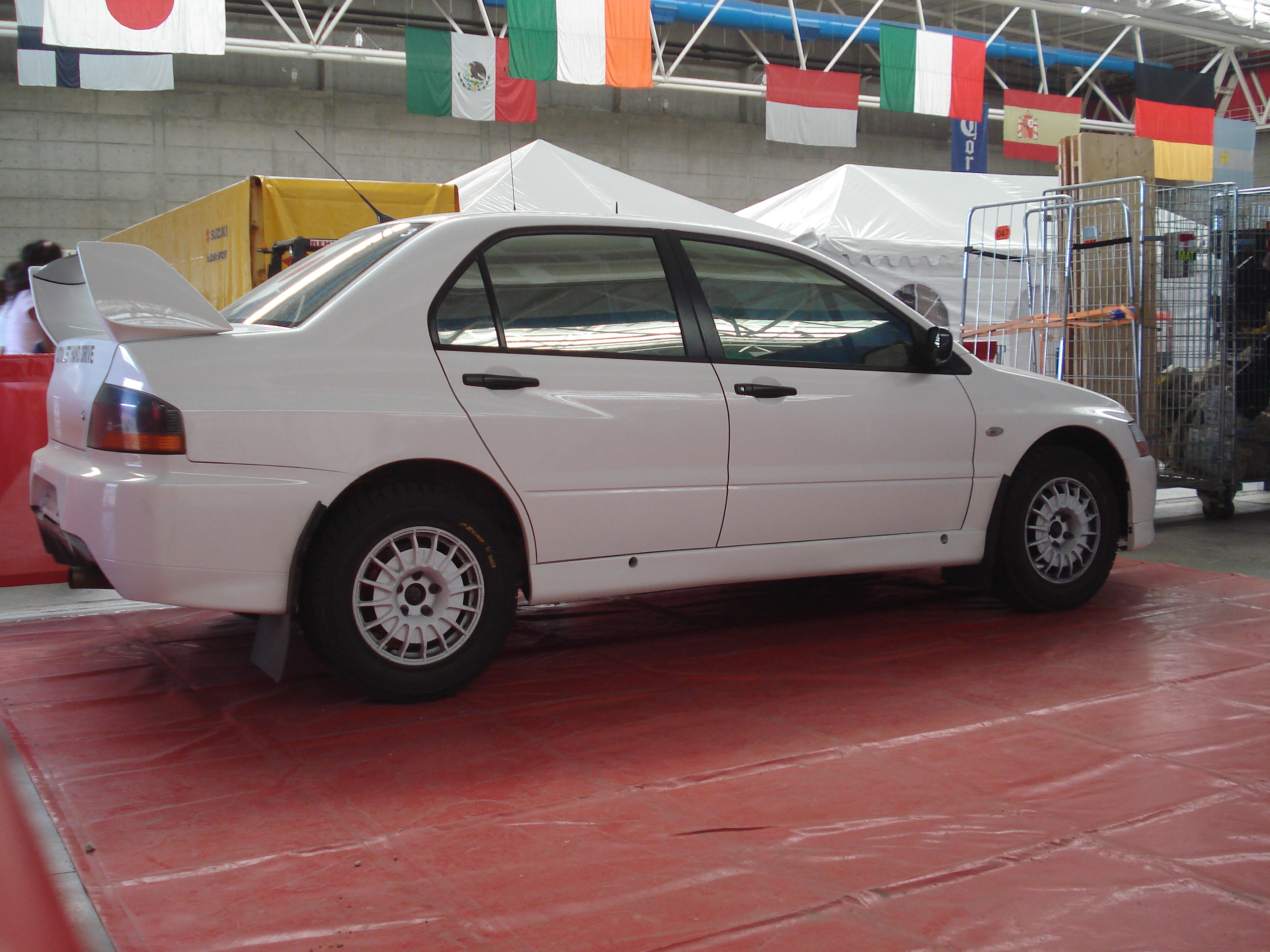 Sebastien Loeb's Mitsubishi Lancer reconnaissance car for the 2008 Rally Mexico parked behind the team area at rally base in the Poliforum in Leon, Mexico.